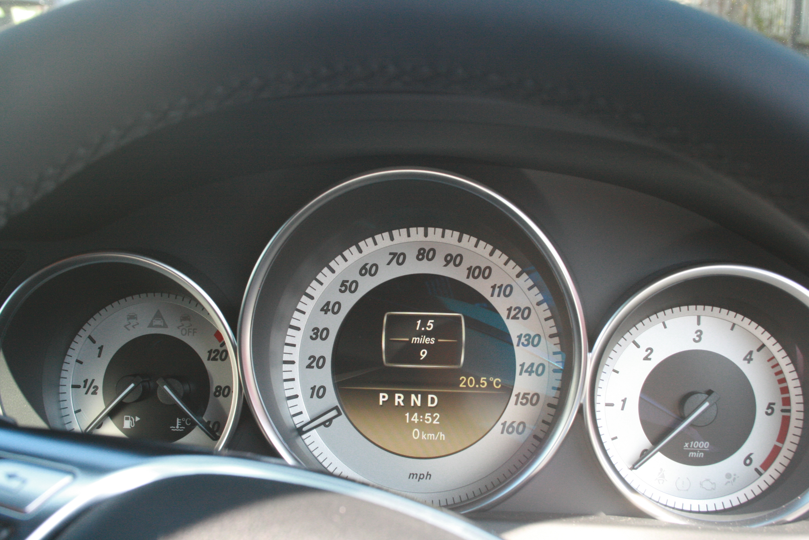 Let's see how much I increase the mileage by...